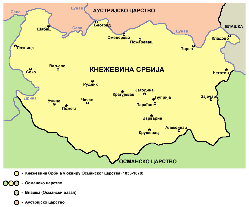 Principality of Serbia in 1833-1878.